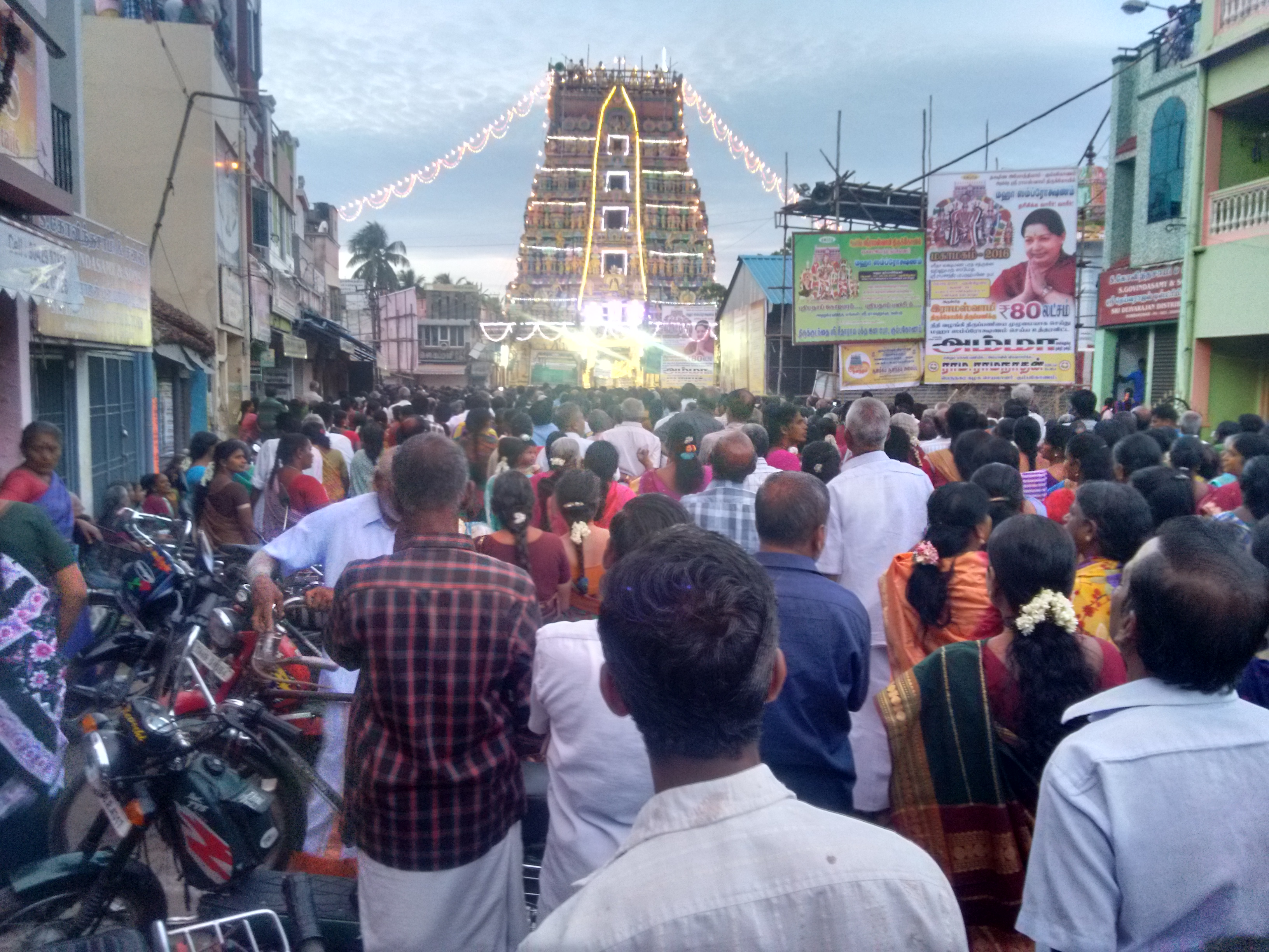 Kumbakonam ramasamykovil கும்பகோணம் இராமசுவாமி கோயில்